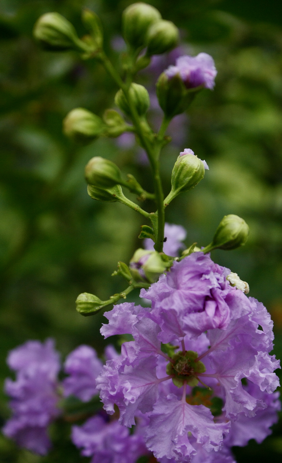 Crepe myrtle (দেশি ফুরুস), Kolkata, West Bengal, India